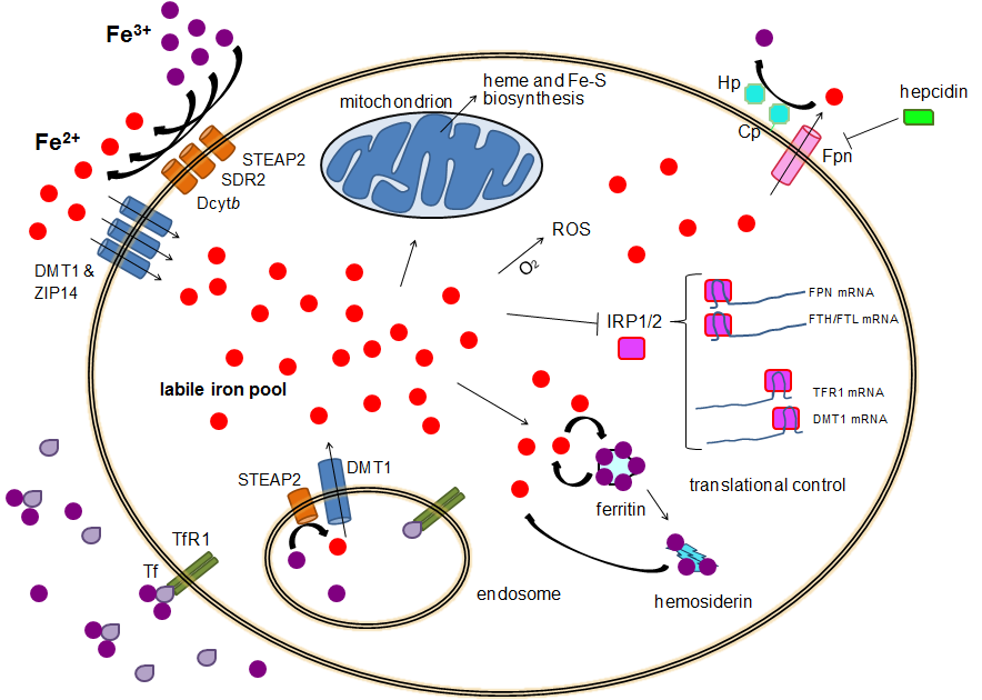 Diagram of human cellular iron homeostasis. Generalized to include cell type-specific proteins.LegendSTEAP2, SDR2 and Dcytb: ferric iron reductasesDMT1 and ZIP14: ferrous iron importersTf: transferrinTfR1: transferrin receptor 1ROS: reactive oxygen speciesIRP1/2: iron responsive element binding proteinsFTH: ferritin heavy chain geneFTL: ferritin light chain geneFpn: ferroportinHp: hephaestinCp: ceruloplasmin